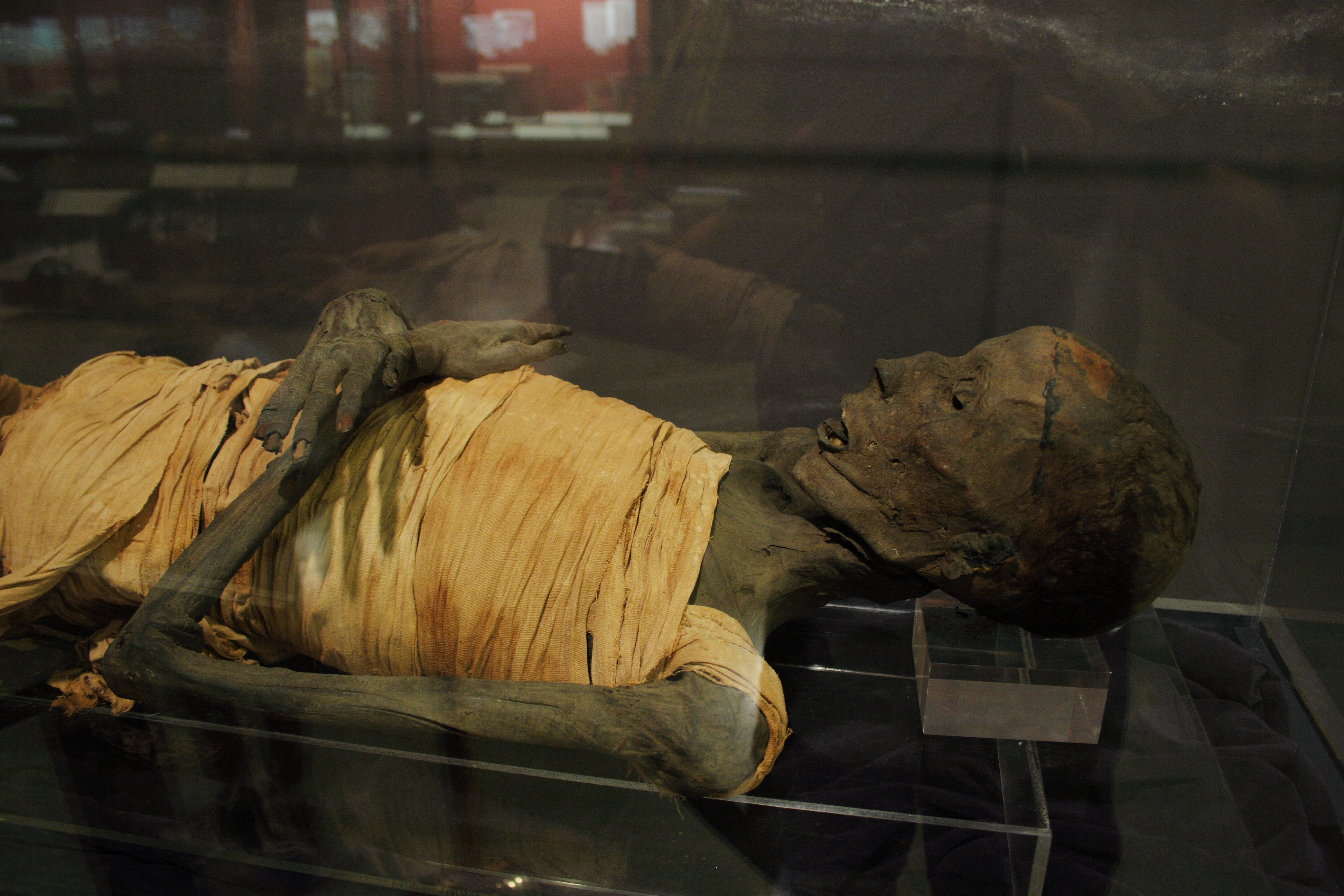 Closeup of the well-preserved mummy of an upper-class Egyptian male commonly called Usermontu, who likely lived during the New Kingdom and later was reburied in an unrelated coffin. Rosicrucian Egyptian Museum (inv. no. RC 1779), San Jose (CA).